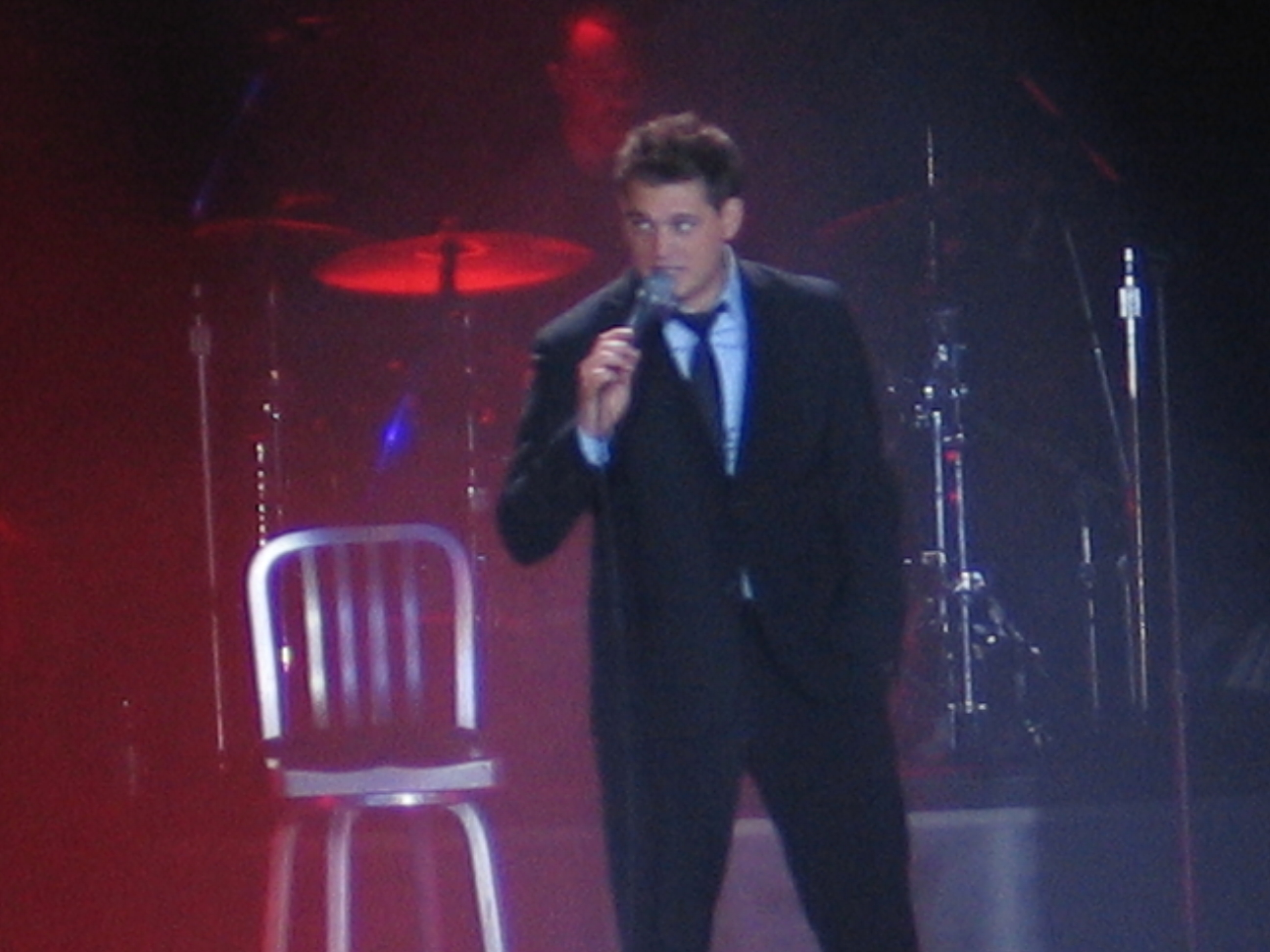 Michael Bublé, performing at the Borgata Hotel and Casino in Atlantic City, NJ on March 5, en:2006.